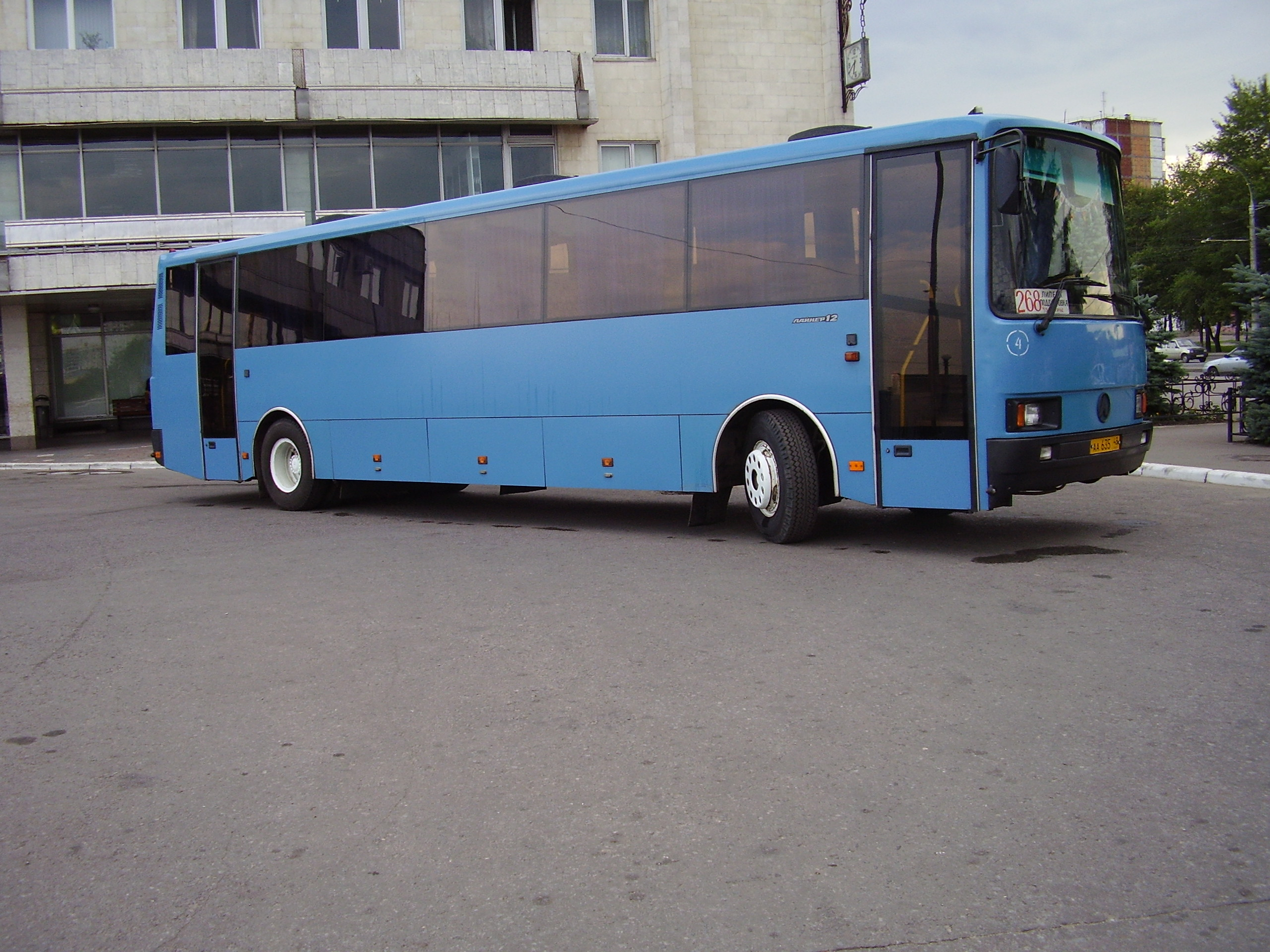 LAZ Lainer 12 bus (reg. AA 635 48) in Lipetsk, Russia.